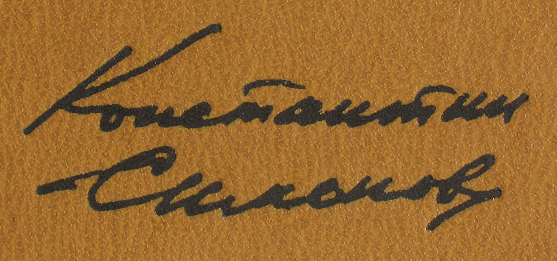 Konstantin Simonov signature on his book (1984).